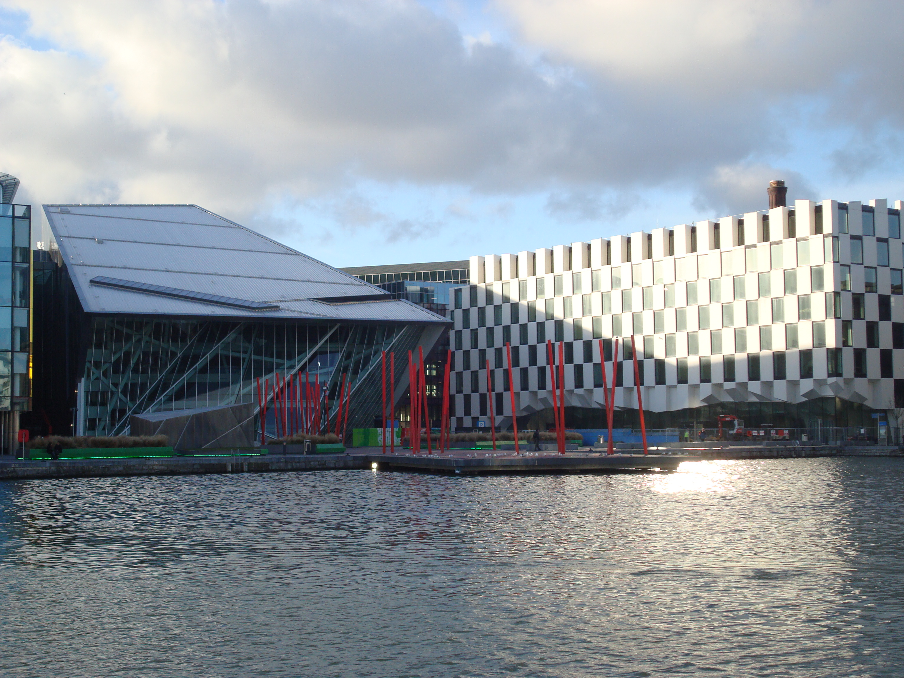 Bord Gais Energy Theatre, Dublin, Ireland